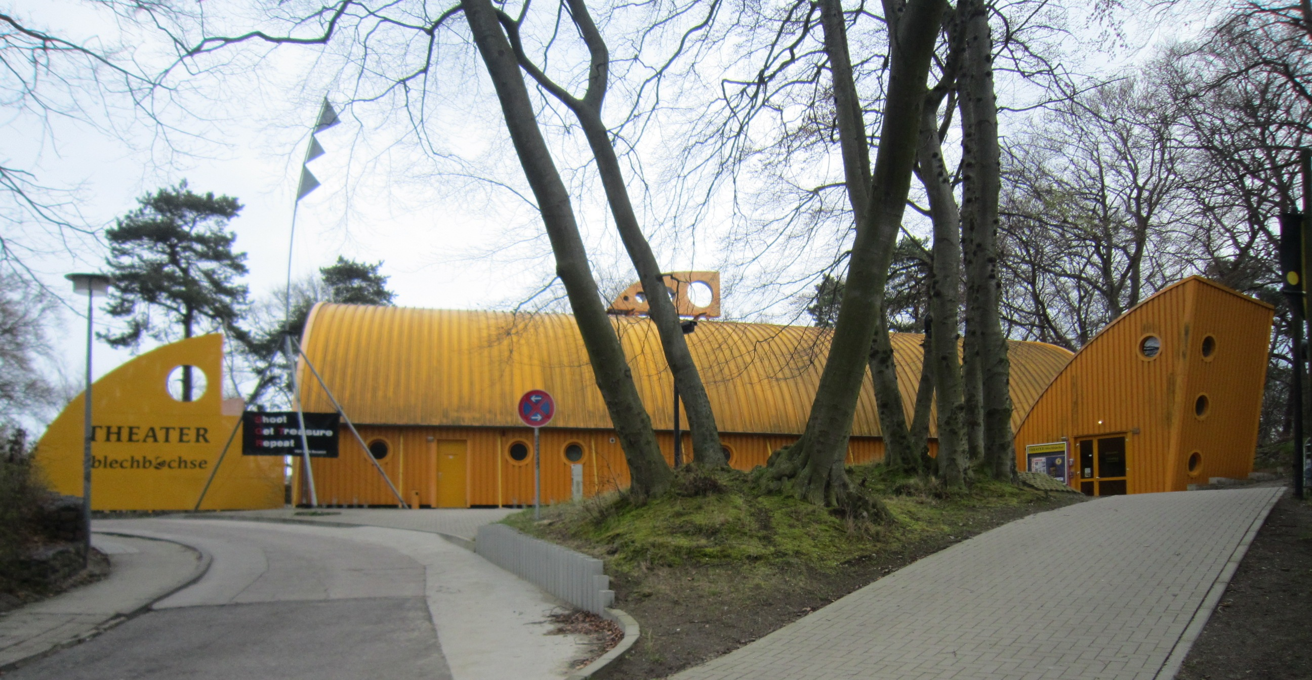 Theater "Blechbuechse" in Zinnowitz